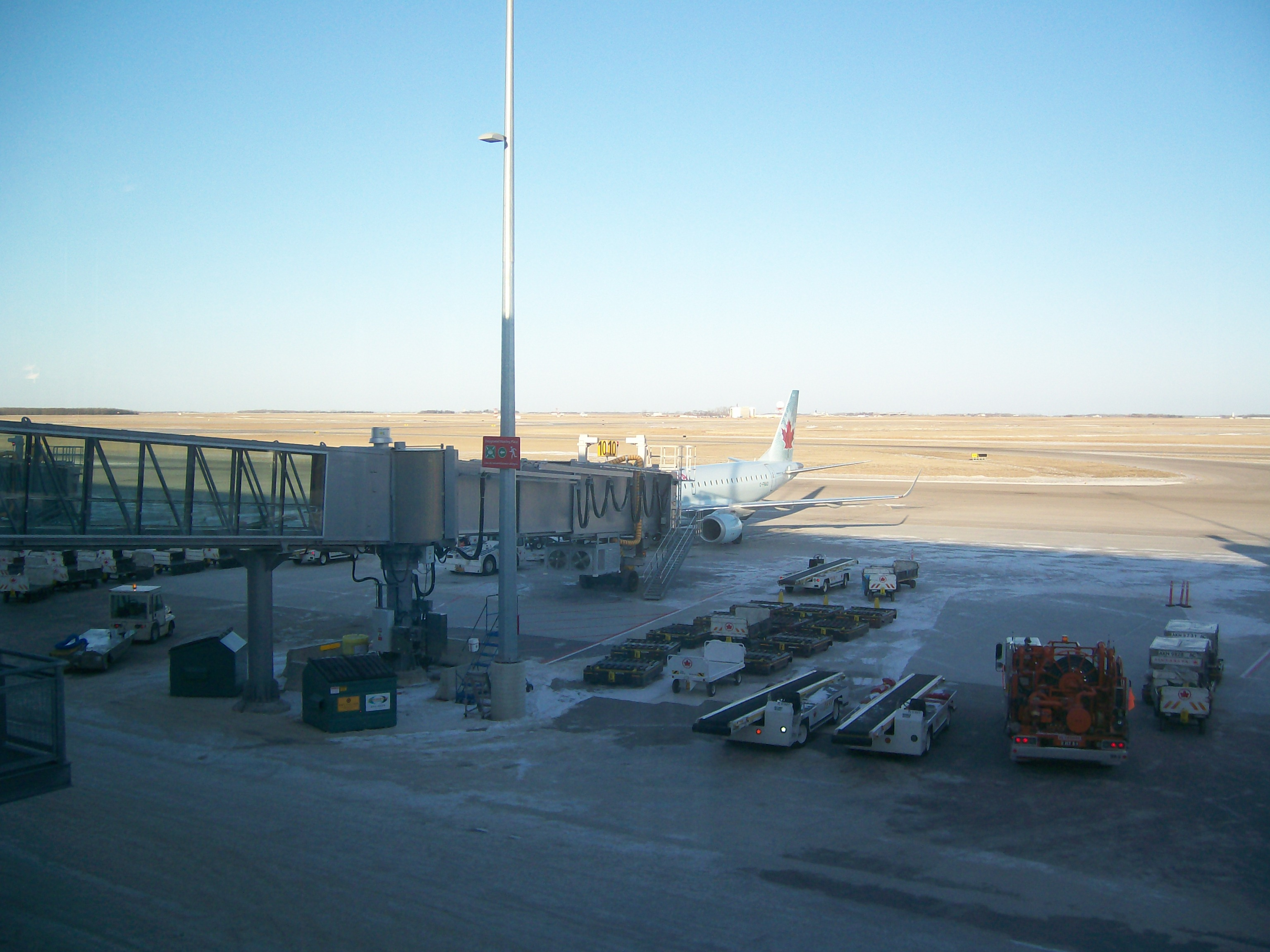 An Air Canada Embraer 190 aircraft, parked at the new terminal at Winnipeg James Armstrong Richardson International Airport, as seen in December 2011.